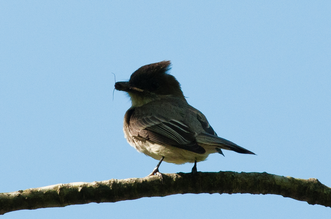 Wompatuck State Park, May 12, 2012